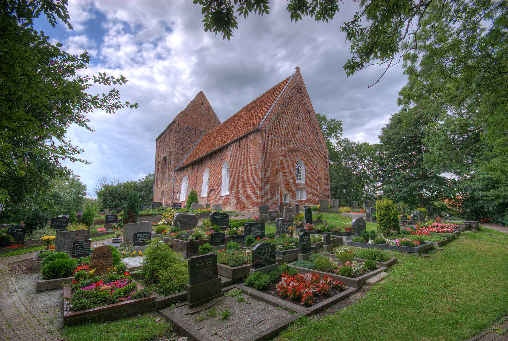 Church and cemetery of Suurhusen, East Frisia, Germany